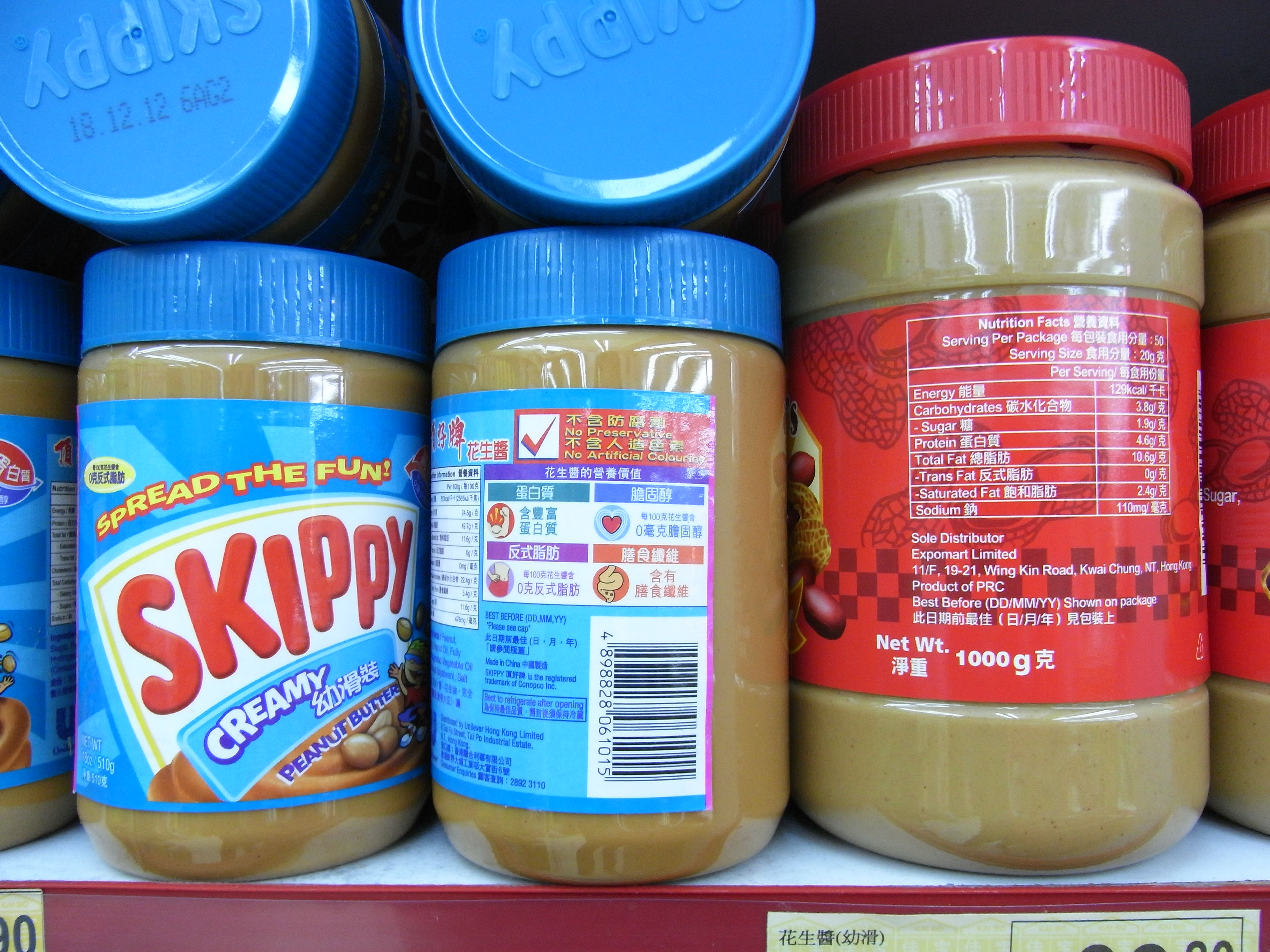 花生醬 Skippy Peanut Butter